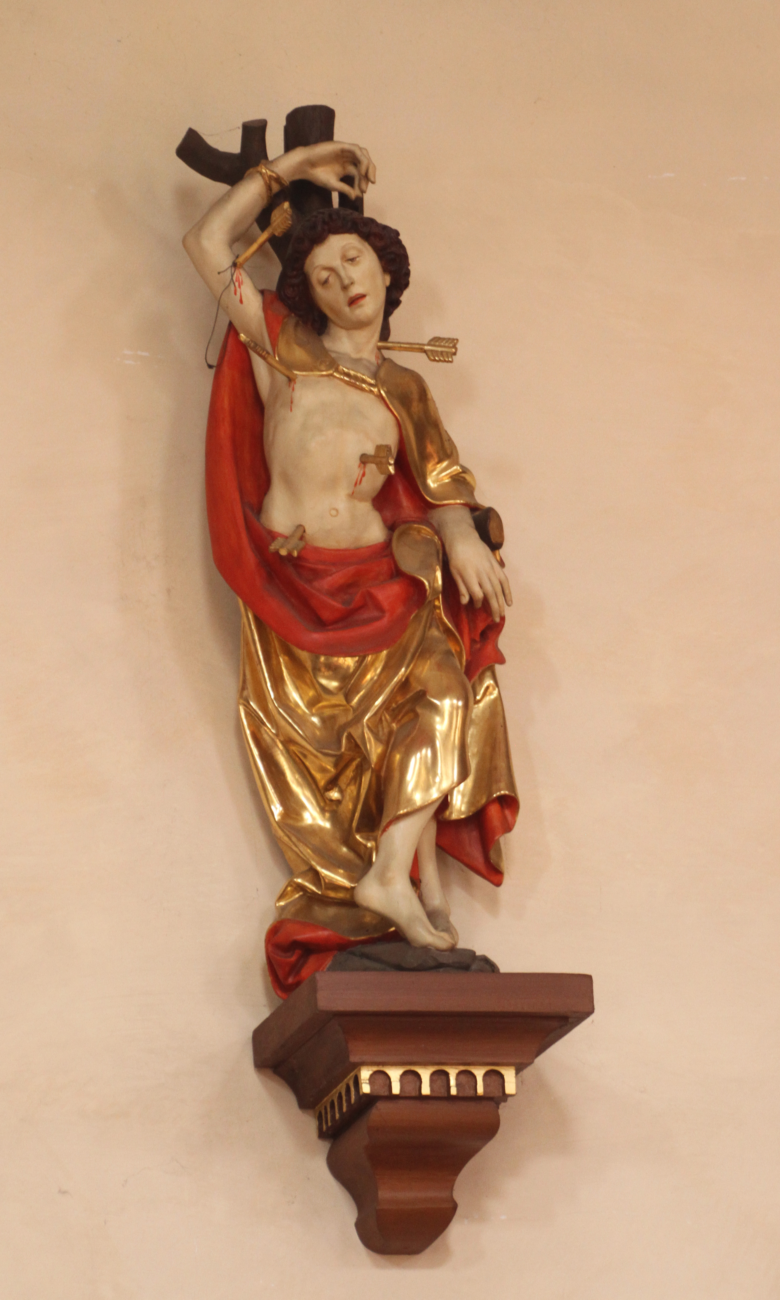 Church of St. Michael in Westheim (Knetzgau), interior decoration.